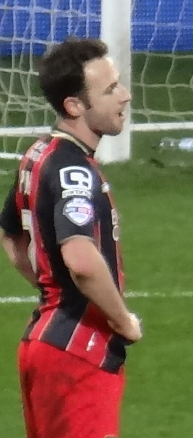 Marc Pugh playing for Bournemouth against Cardiff City at Cardiff City Stadium, Cardiff on 17 March 2015